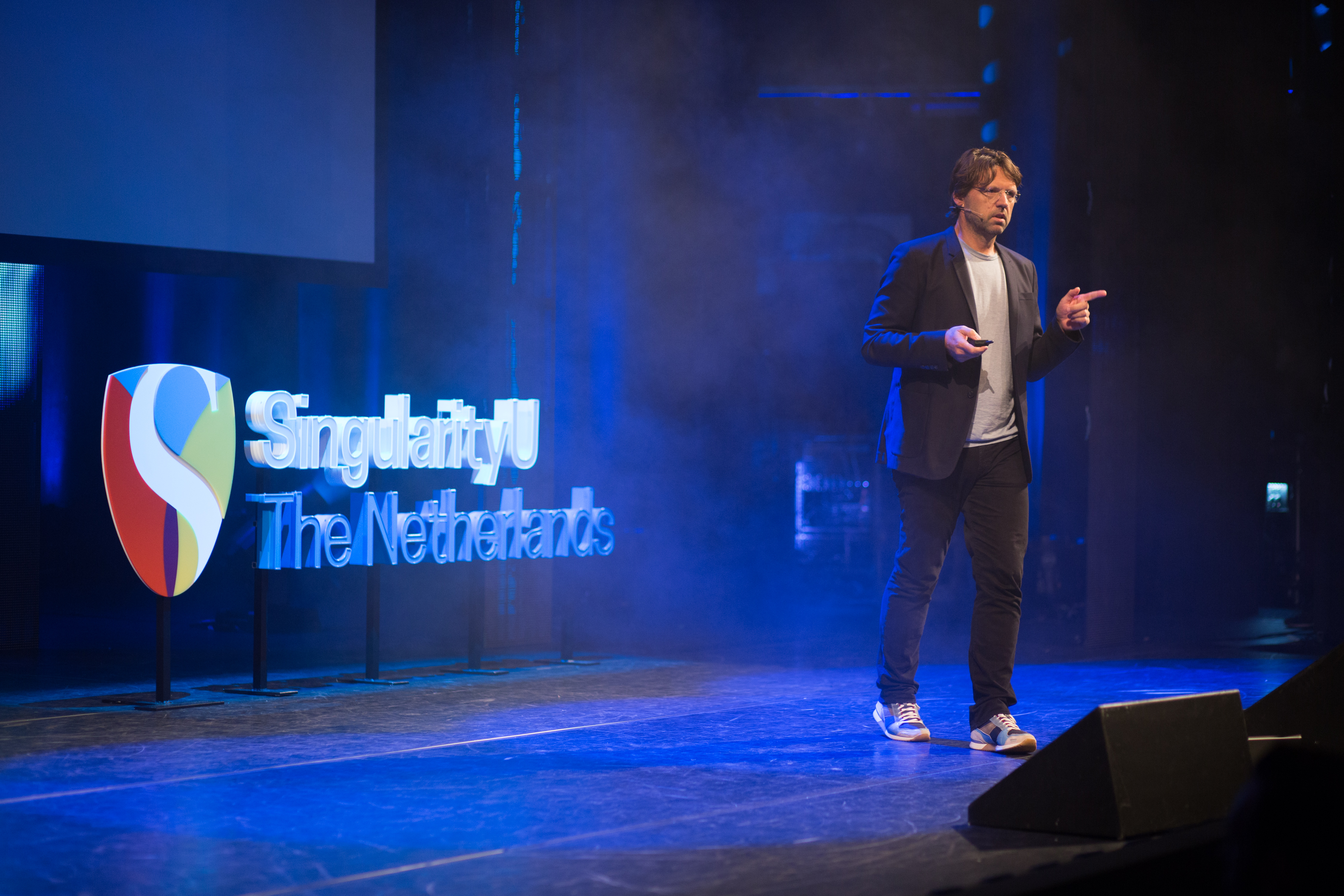 The SingularityU The Netherlands Summit 2016 took place on September 12 & 13 in Amsterdam, The Netherlands. The Netherlands Summit was aimed at bringing awareness about exponential technologies and their impact on business and policy. The theme of the summit was "Reality Check - Fast-Forward into our Future". For more information